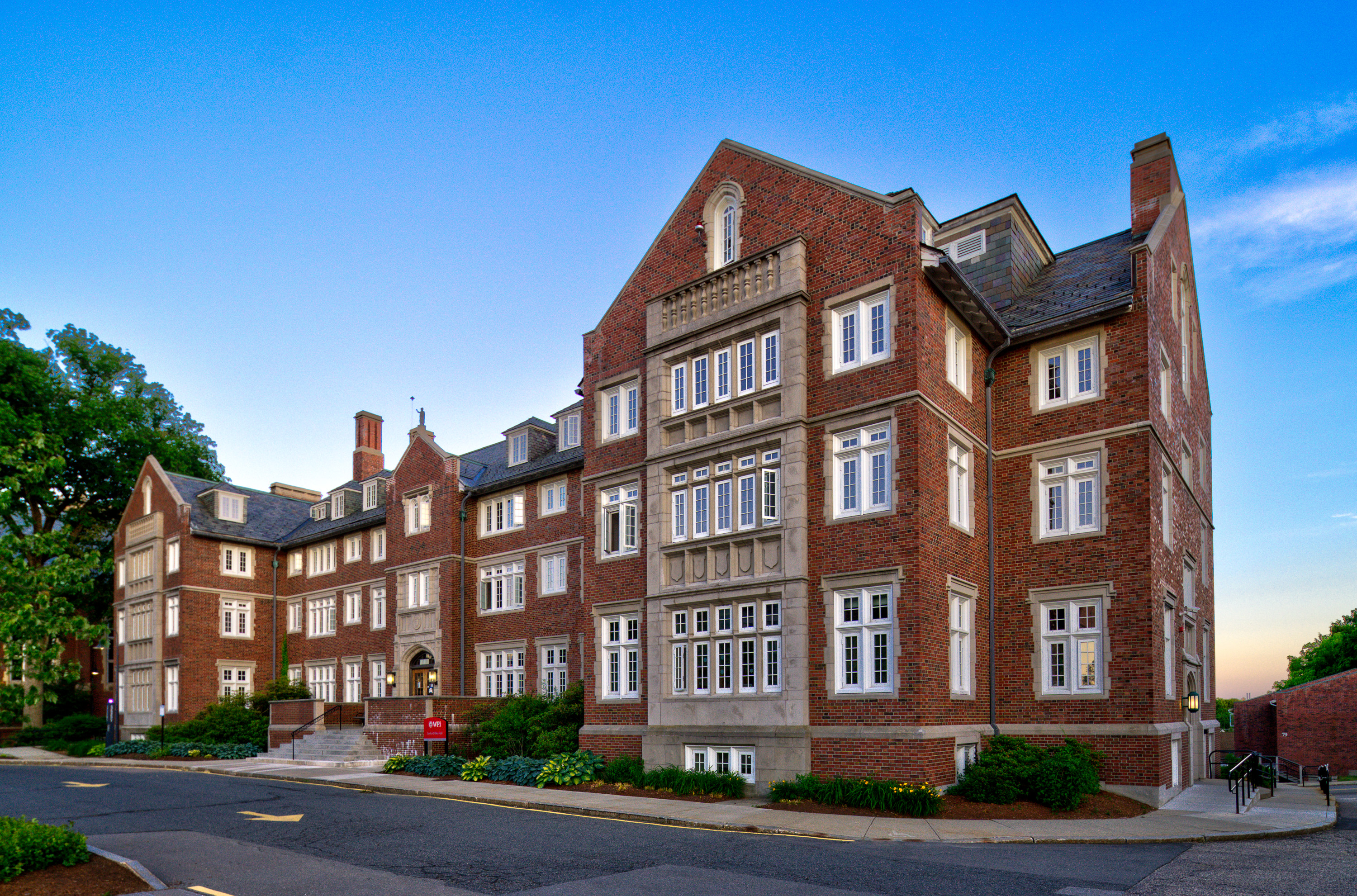 Sanford Riley Hall, Worcester Polytechnic Institute. The first residence hall built on campus. Built 1927.